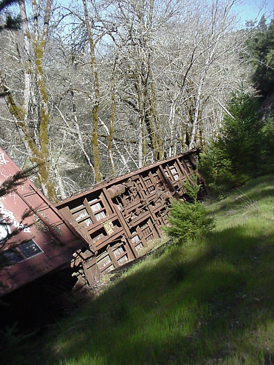 Derailed box cars left adjacent to Outlet Creek in Mendocino County at Northwestern Pacific Railroad milepost 152.